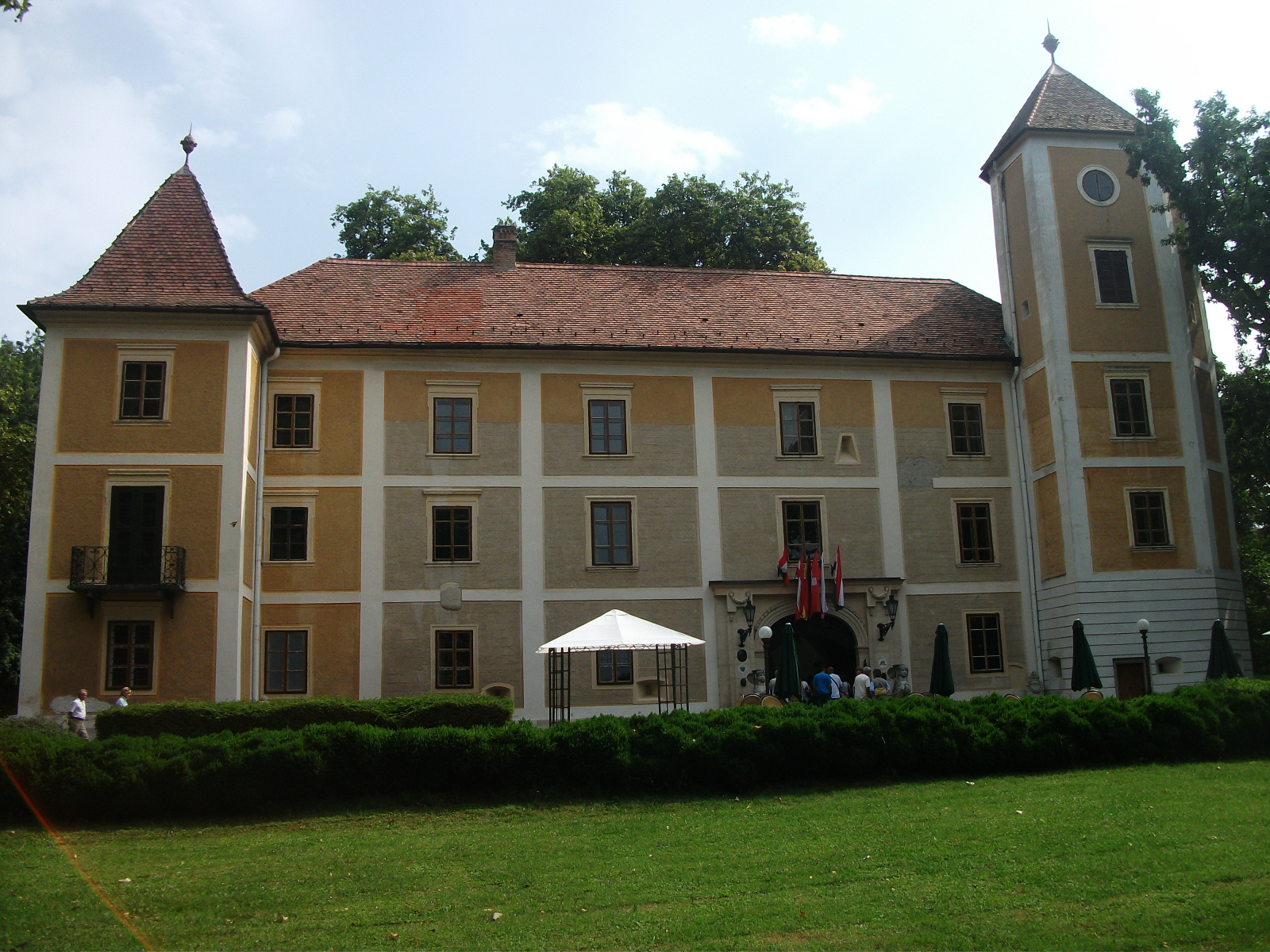 Hédervári Mansion.